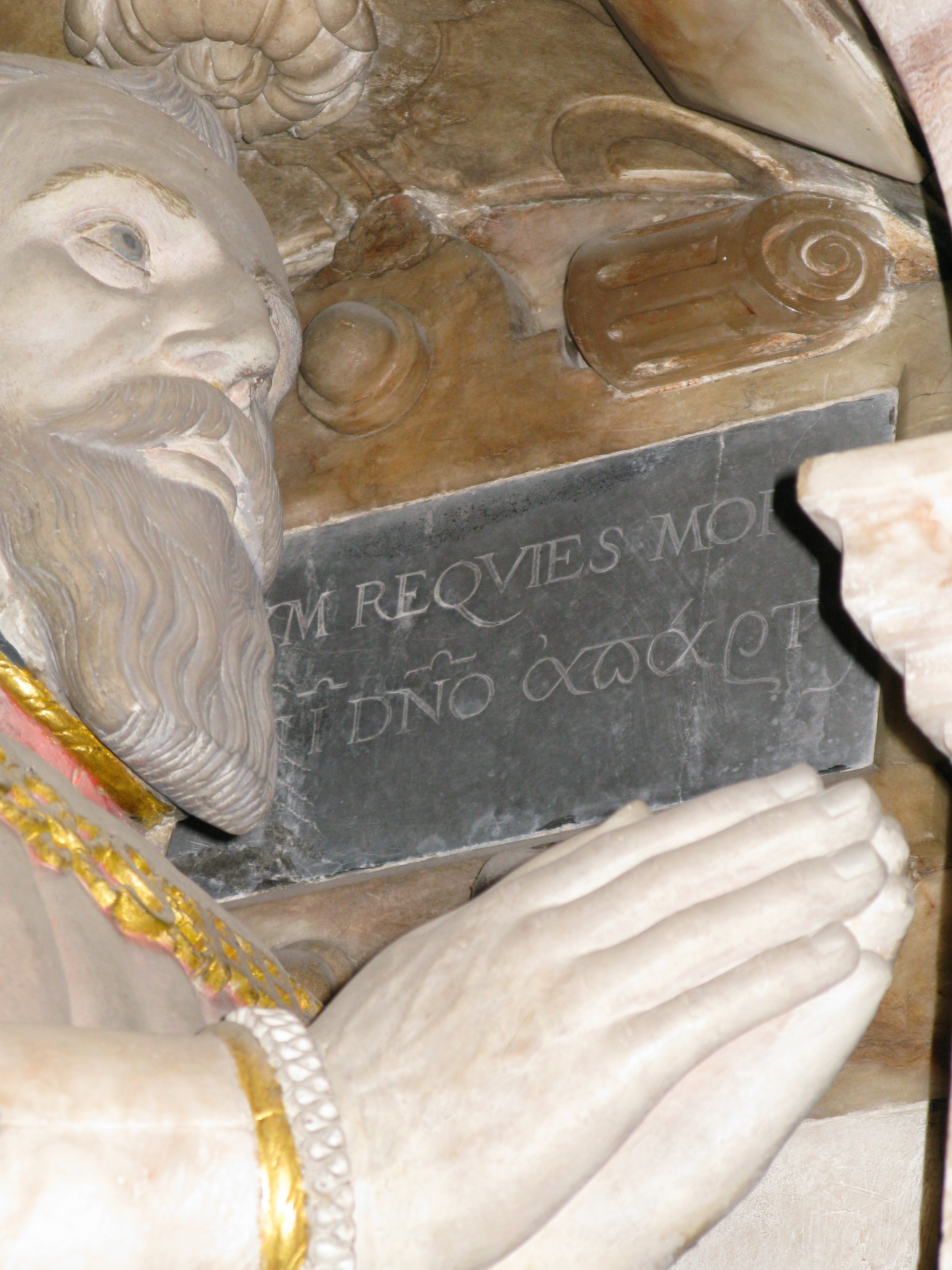 Face of Sir Richard Close up